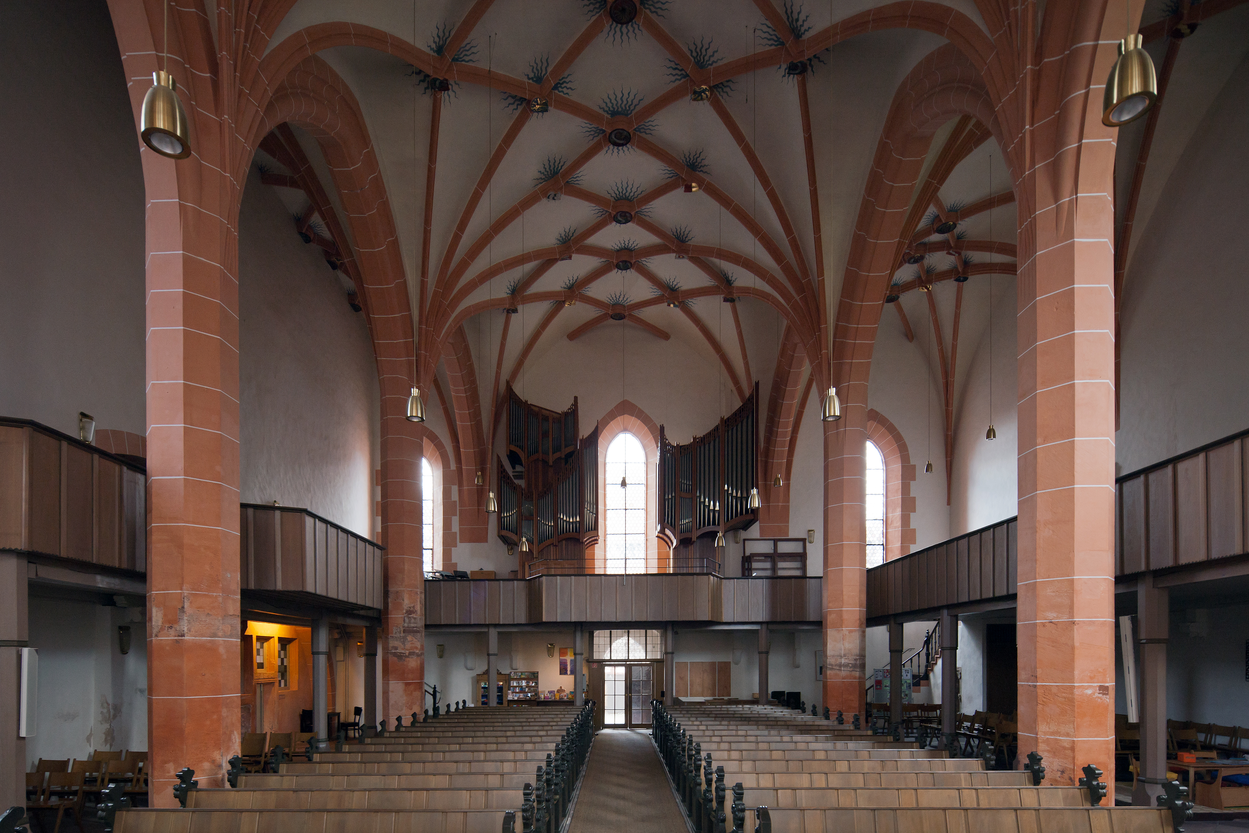 Büdingen: Marienkirche (St. Mary's Church), interior as seen from the east